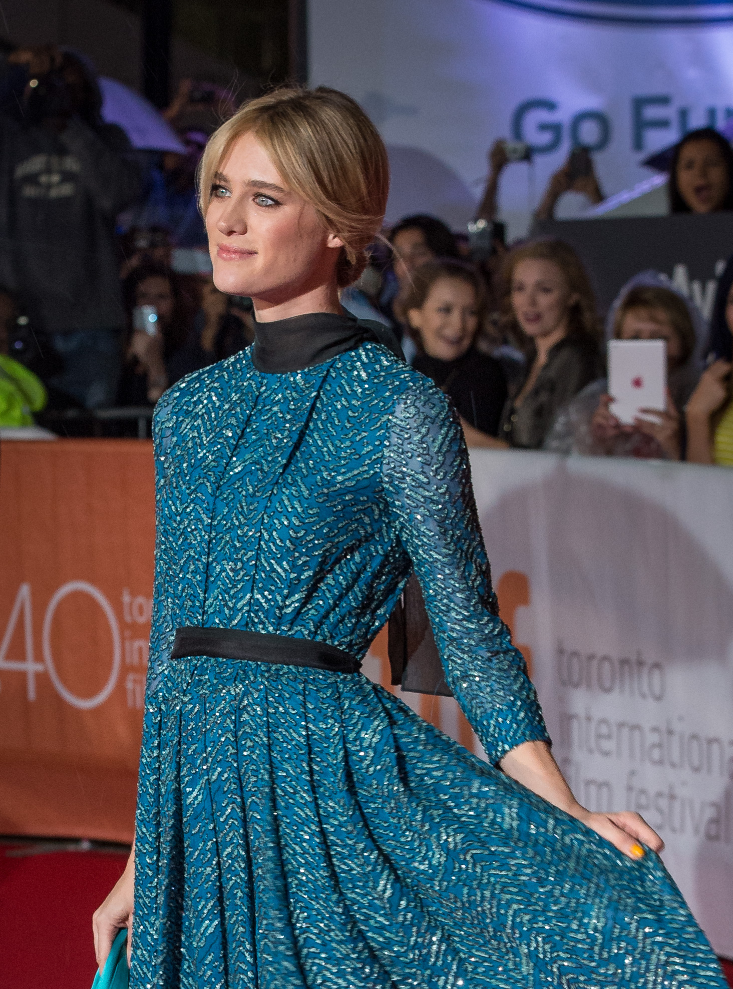 Actress Mackenzie Davis attends the world premiere for "The Martian” on day two of the Toronto International Film Festival at the Roy Thomson Hall Friday, Sept. 11, 2015 in Toronto. NASA scientists and engineers served as technical consultants on the film. The movie portrays a realistic view of the climate and topography of Mars, based on NASA data, and some of the challenges NASA faces as we prepare for human exploration of the Red Planet in the 2030s.